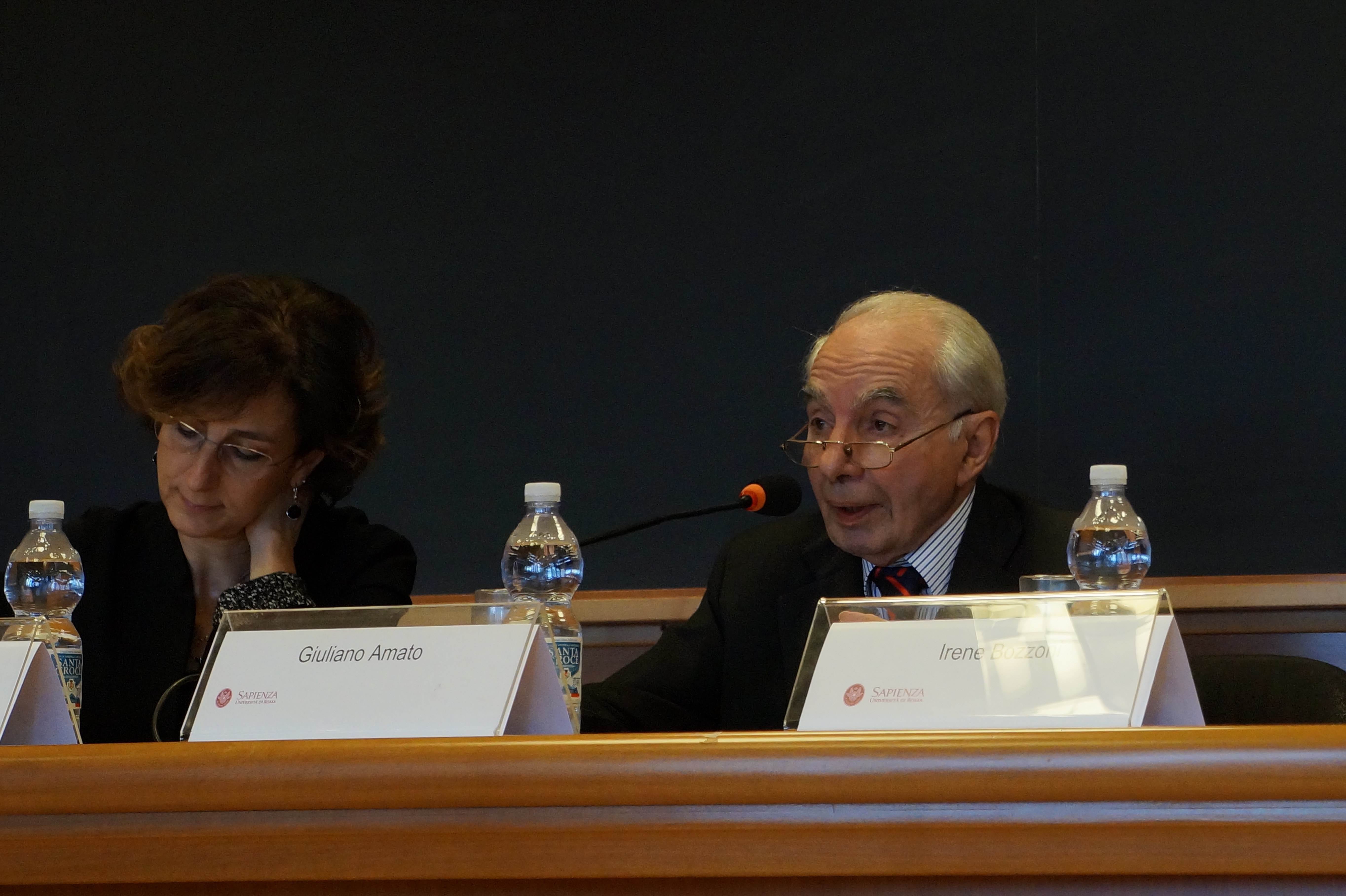 Giuliano Amato during a conference in Sapienza University